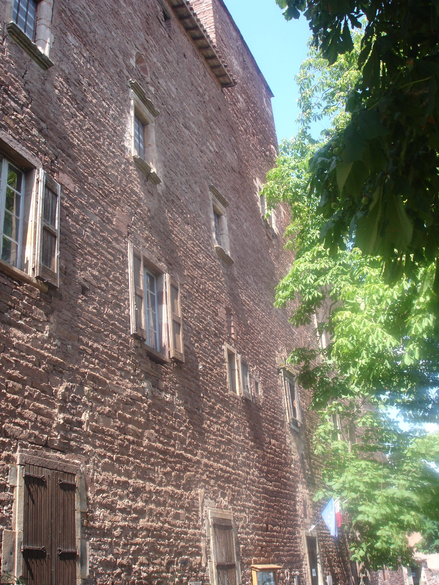 France, Aveyron (12), Saint-Izaire Castle